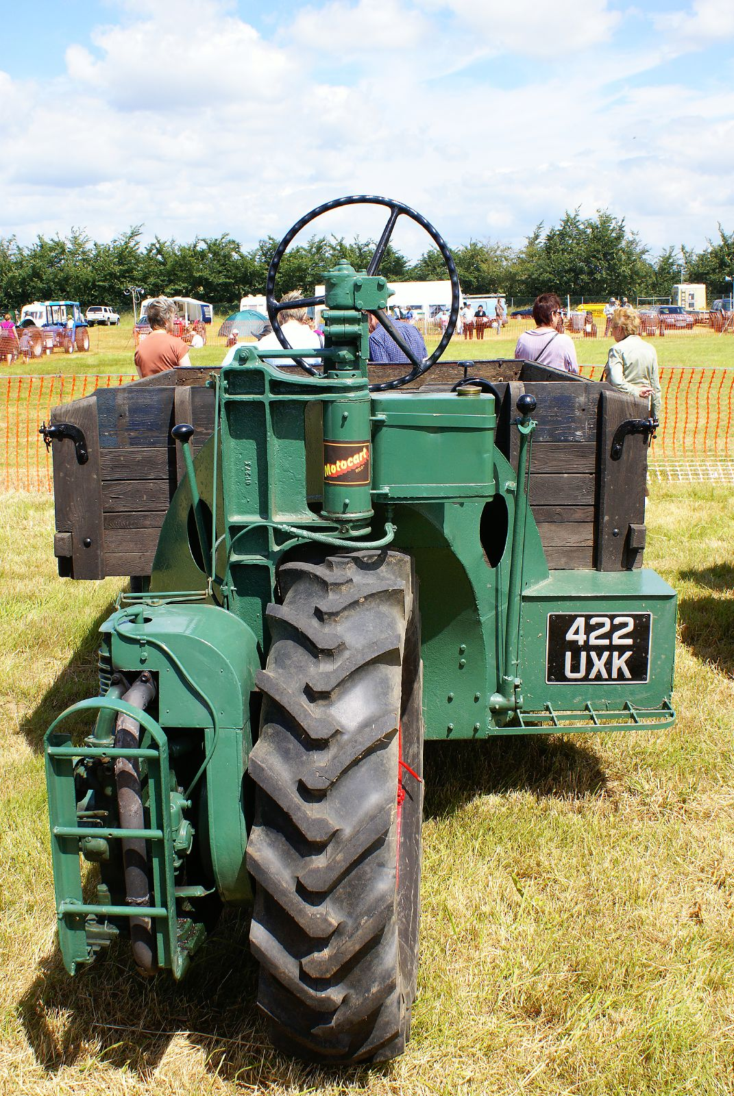 Wings Wheels and Steam Country Fair at Rougham Bury St Edmunds Suffolk